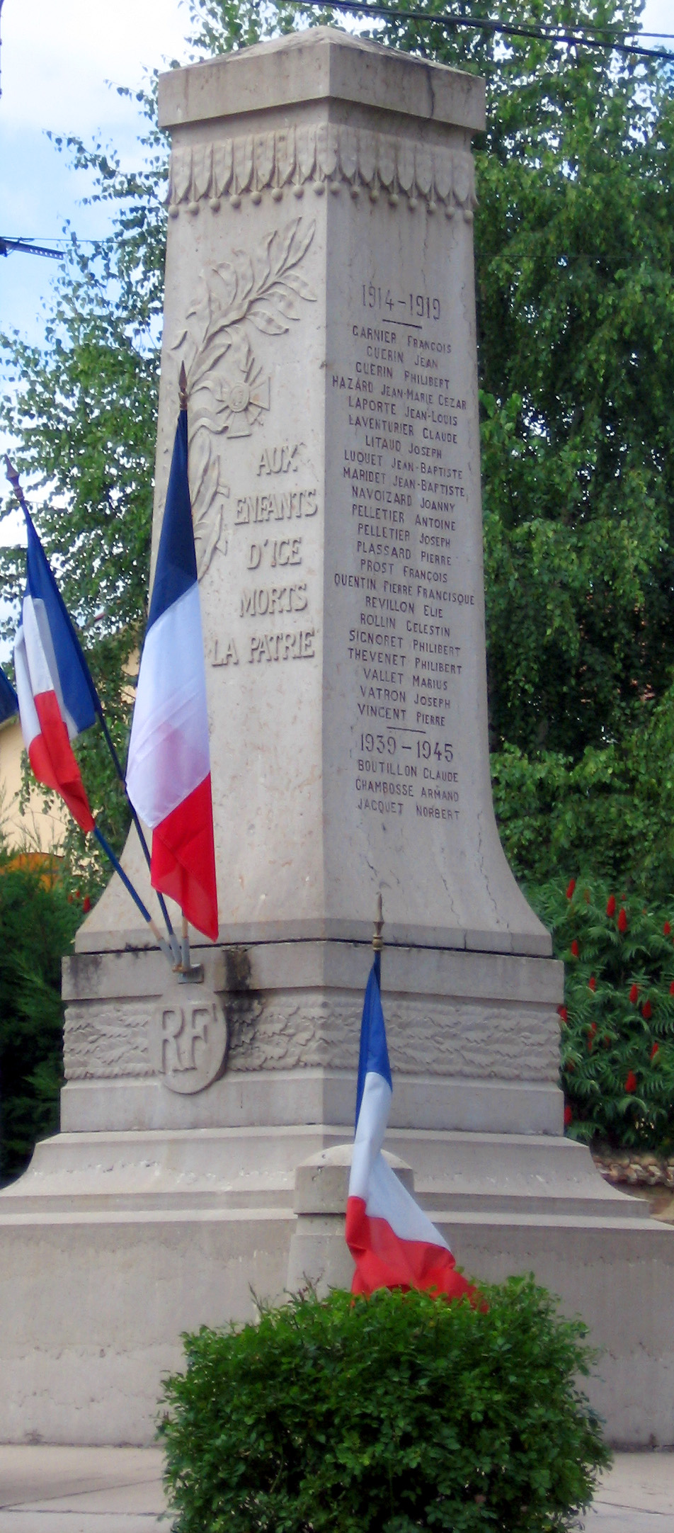 Monument aux morts